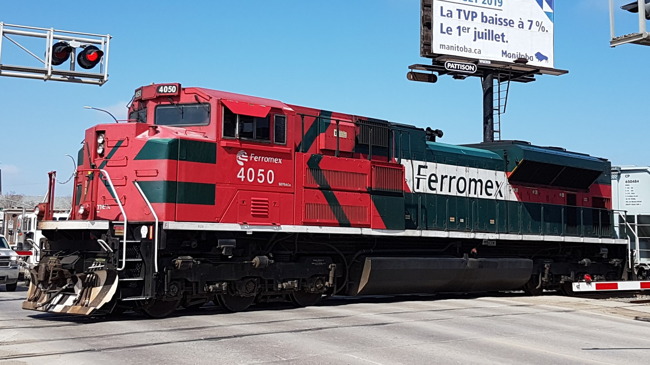 Ferromex 4050 on the CP Emerson Subdivision in Winnipeg at Marion Street level crossing.